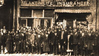 Atlanta Life Insurance Company est. 1910-20